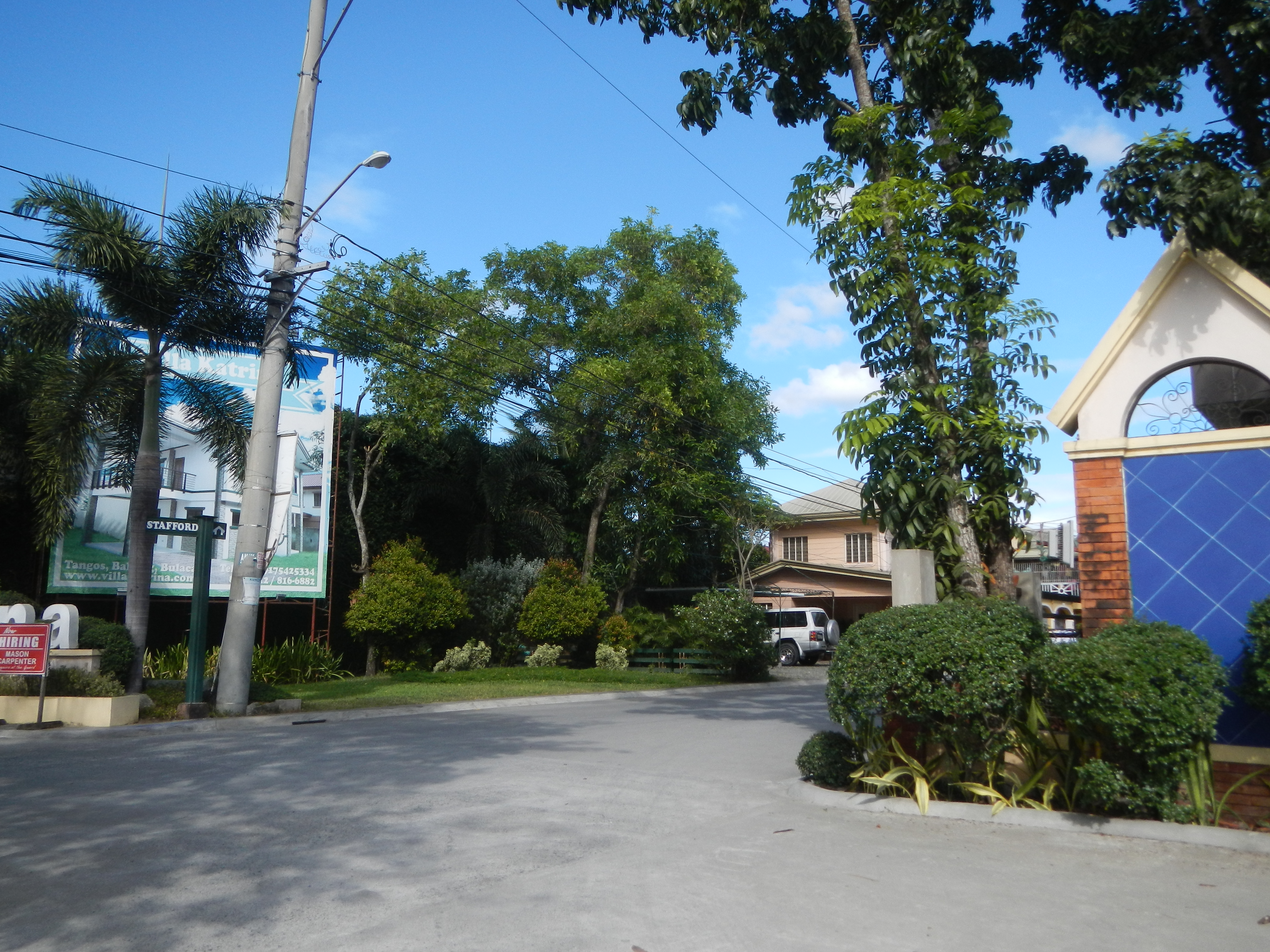 Barangay, Tangos Villa Katrina and Santo Niño, Baliuag, Bulacan, Bulacan (accessed from and along Baliuag, Bulacan-Candaba, Pampanga Road from Maharlika Highway (Cagayan Valley Road, Baliuag-Pulilan-Guiguinto, Bulacan) Pan-Philippine Highway, also known as the Maharlika "Nobility/freeman" Highway or Asian Highway 26, Cagayan Valley Road).